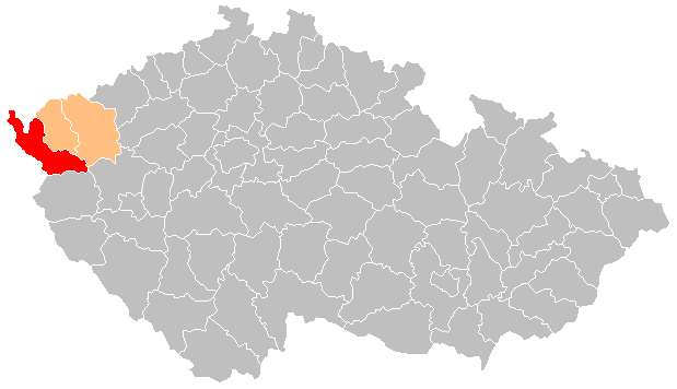 Cheb District within Karlovy Vary Region. Current borders of districts since January 1, 2007.